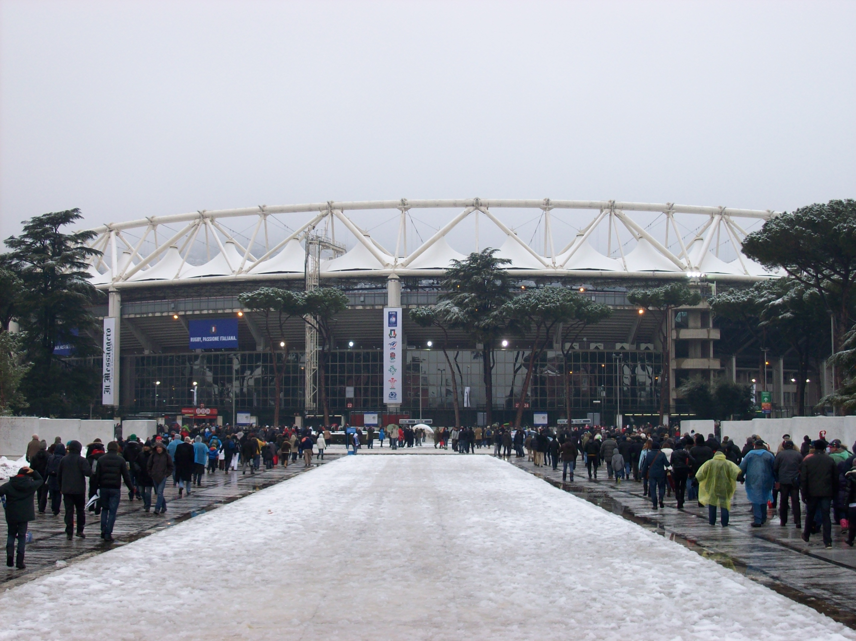 Olympic Stadium in Rome under the snow before the match Italy - England at the 2012 Six Nations